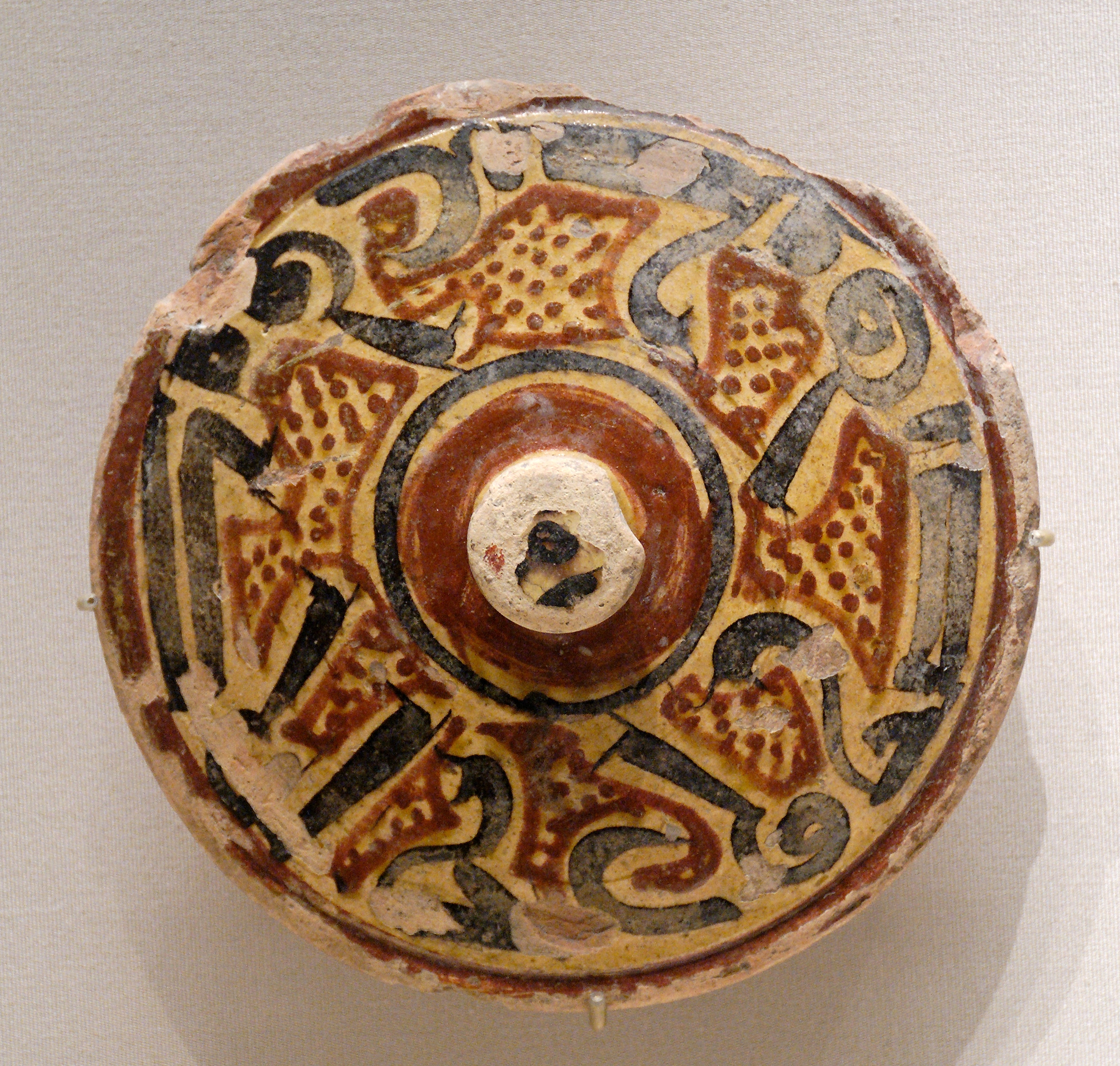 Lid.